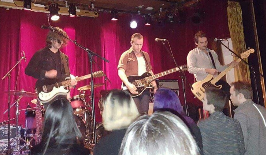 The Hunna photographed in Montreal, Quebec, Canada at Sala Rossa.